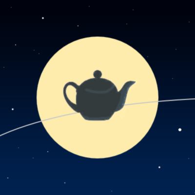 Russell's Teapot